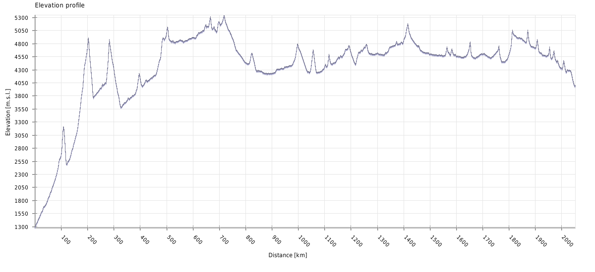 China National Highway 219 Elevation Profile